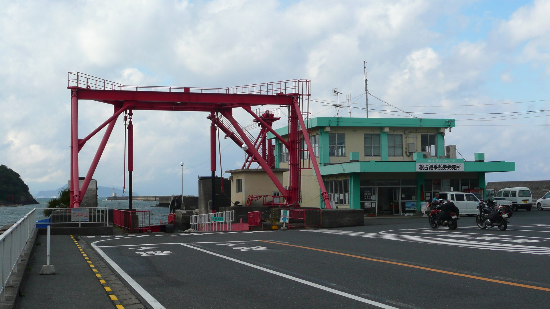 Nejime Port Ferry Terminal (Kagoshima Prefecture, Japan)